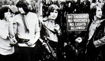 Photo of The Troggs from a Dick James Music company ad.